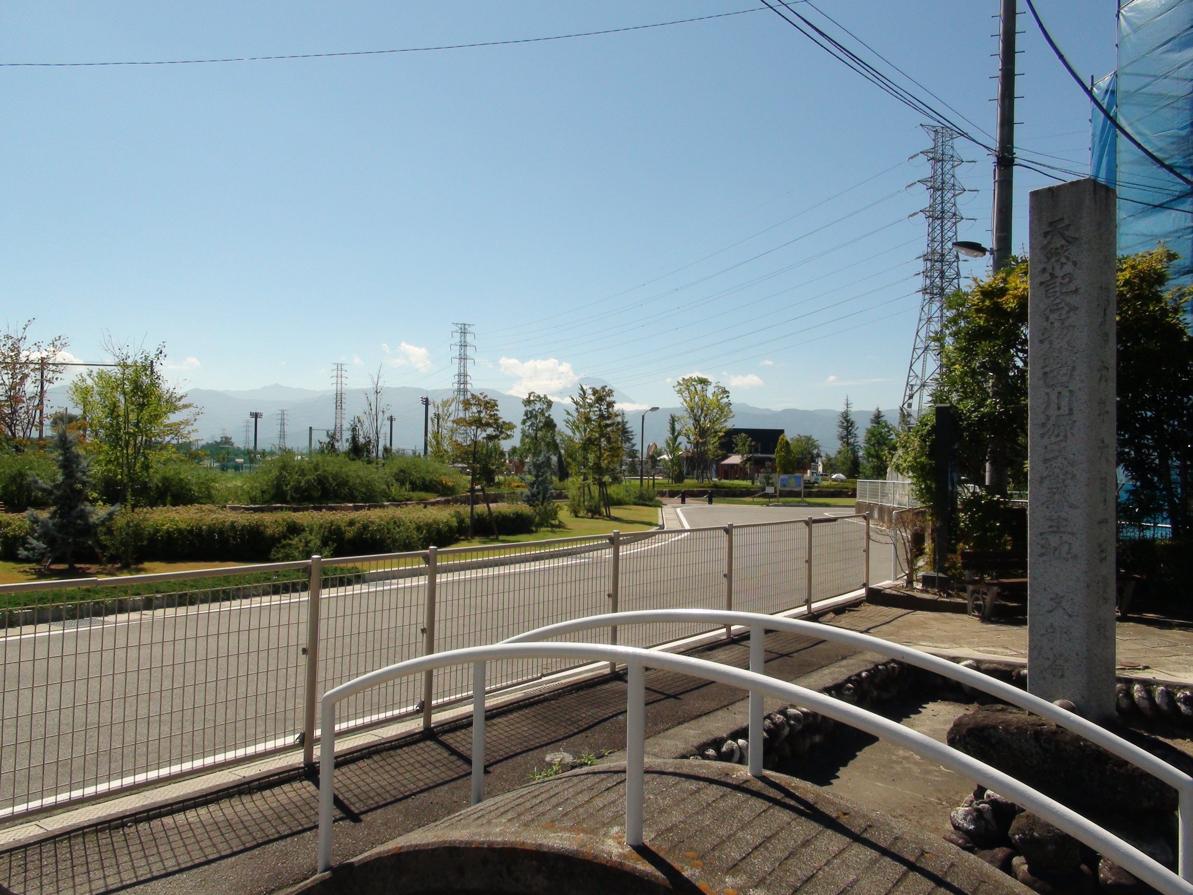 Kamata river habitat Luciola cruciata natural monument stone tablets